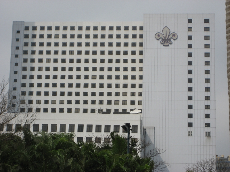 Hong Kong Scout Centre